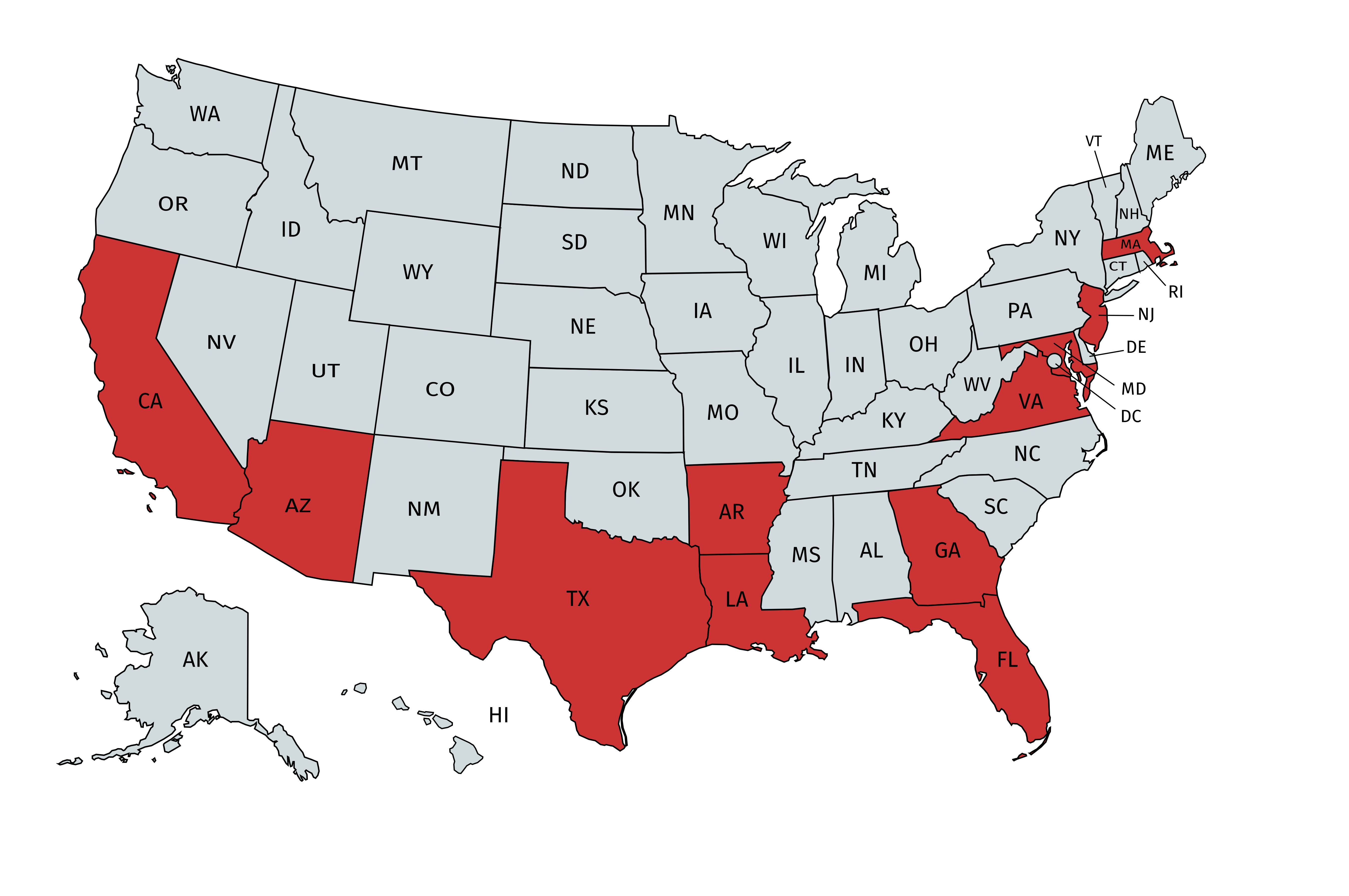 Map showing U.S. states where the Boston Red Sox baseball team has held spring training, since 1901.